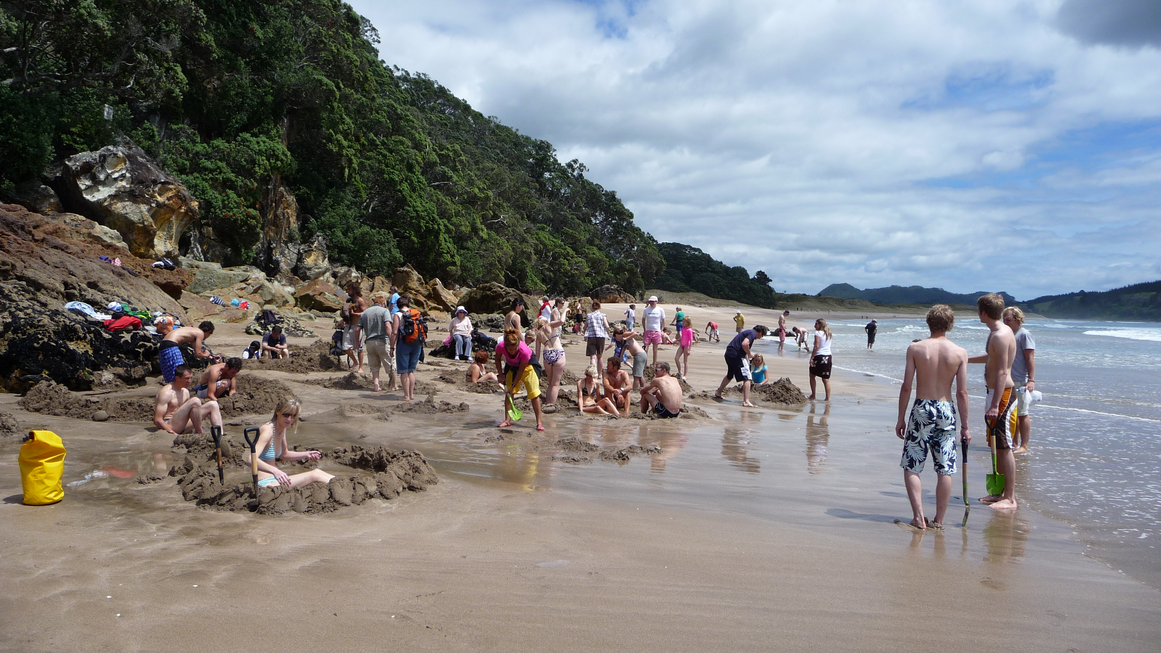 Excavations into the sand on Hot Water Beach, New Zealand.